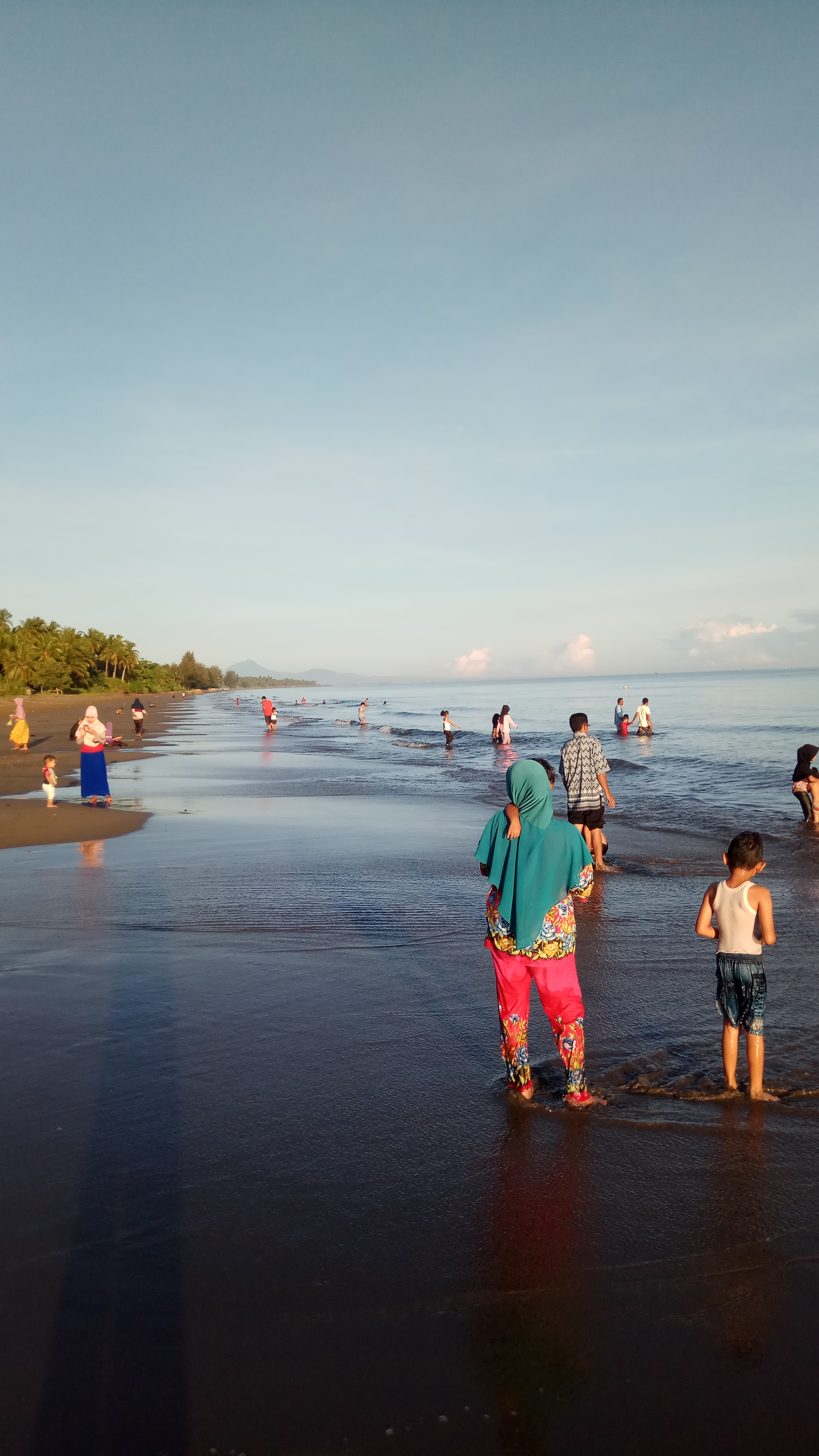 Enjoy the Sunday at Balemon Beach